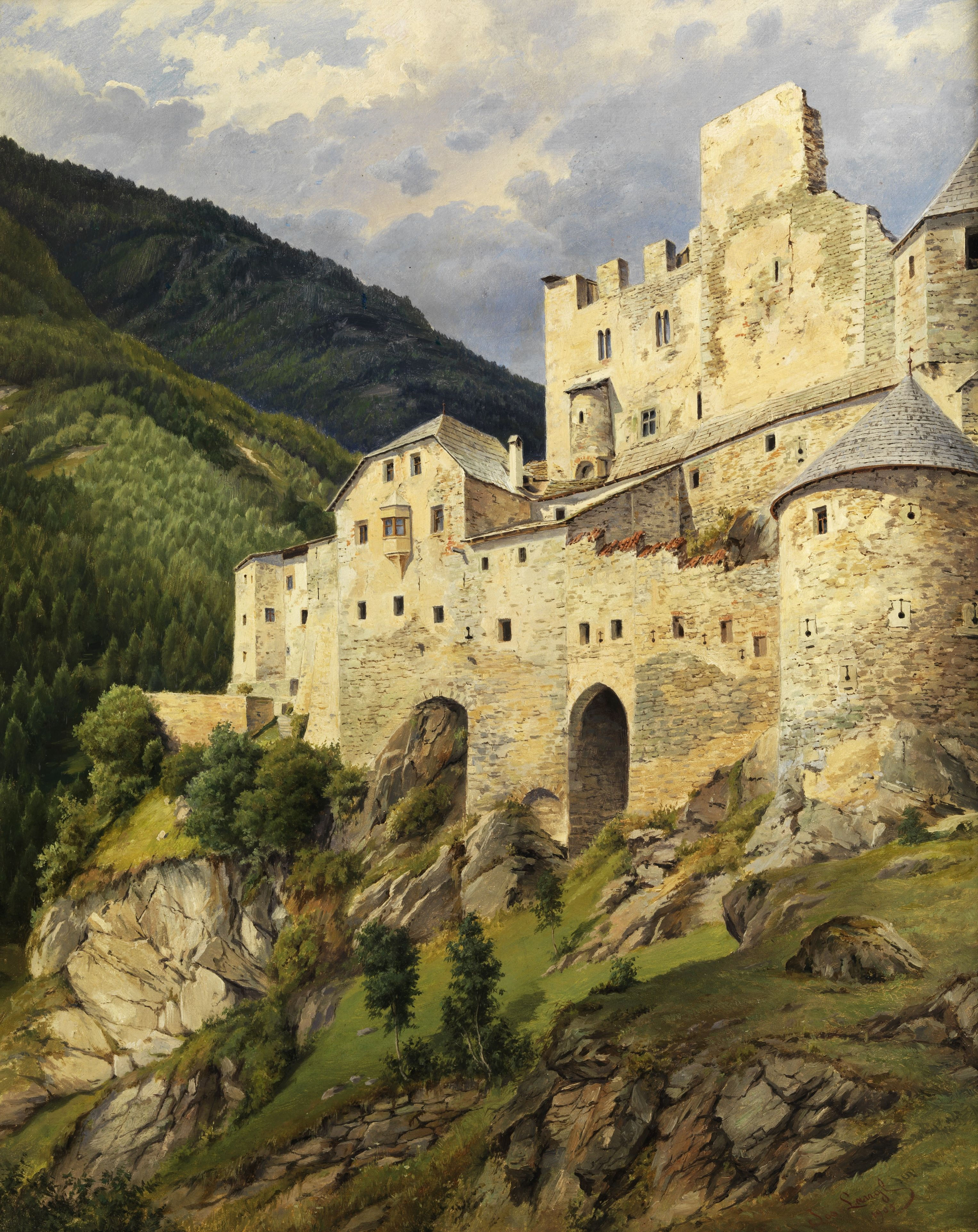 Object location46° 55′ 23.52″ N, 11° 56′ 54.6″ E